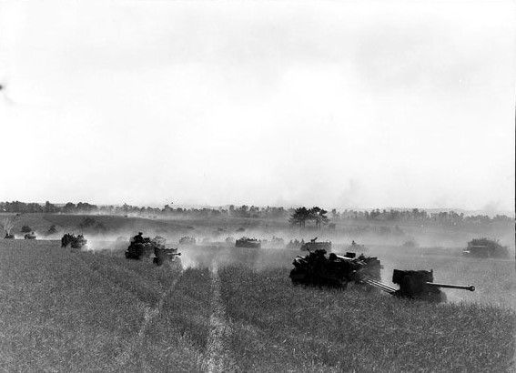 Vehicles of the 3rd Canadian Division advancing on Bretteville-le Rabet, France, towards Falaise as part of Operation Tractable